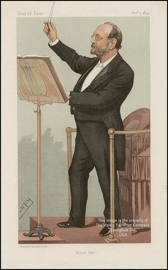 Caricature of Joseph Barnby (1838-1896). Caption read "Albert Hall".